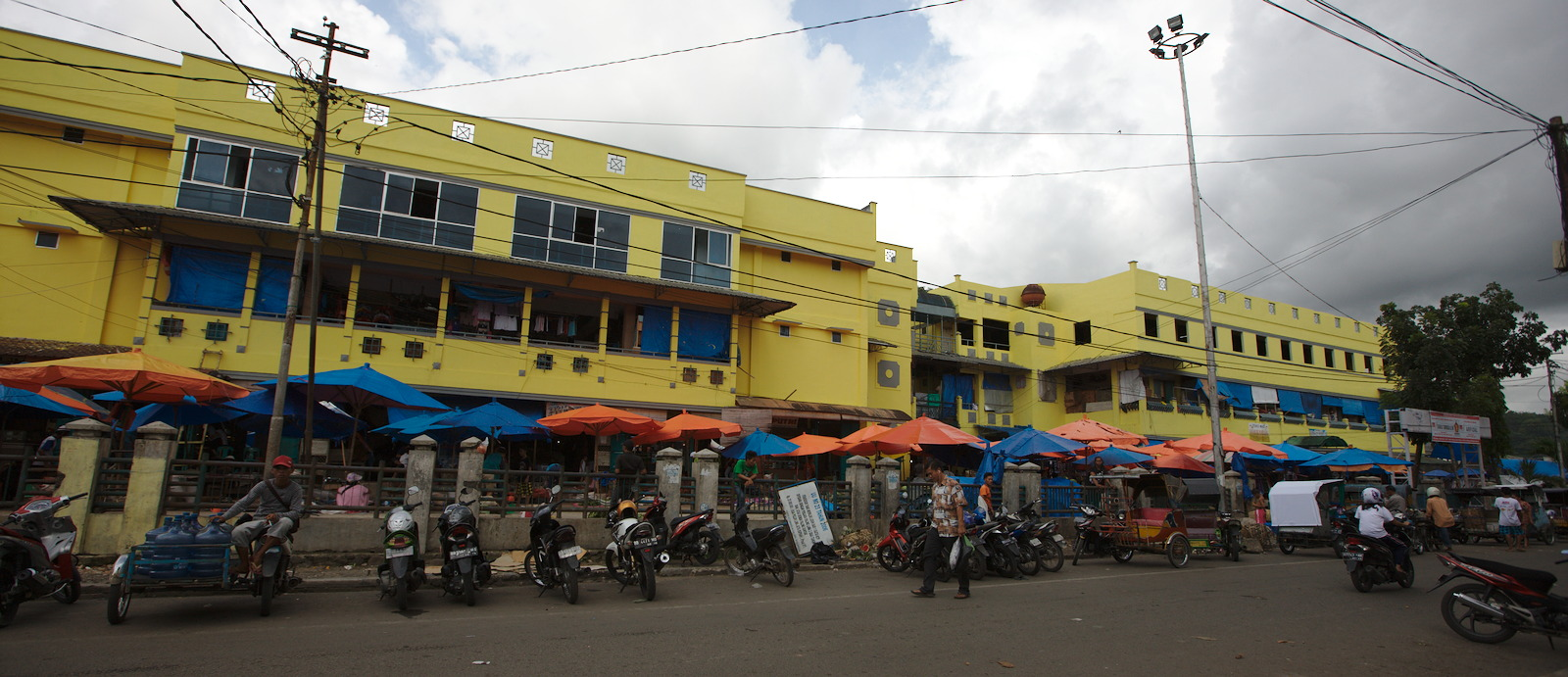 The main pasar (bazaar, or market) of Silboga, North Sumatra, Sumatra, Indonesia. View from the west (ie. direction of the coast). Taken 2013-10-18.